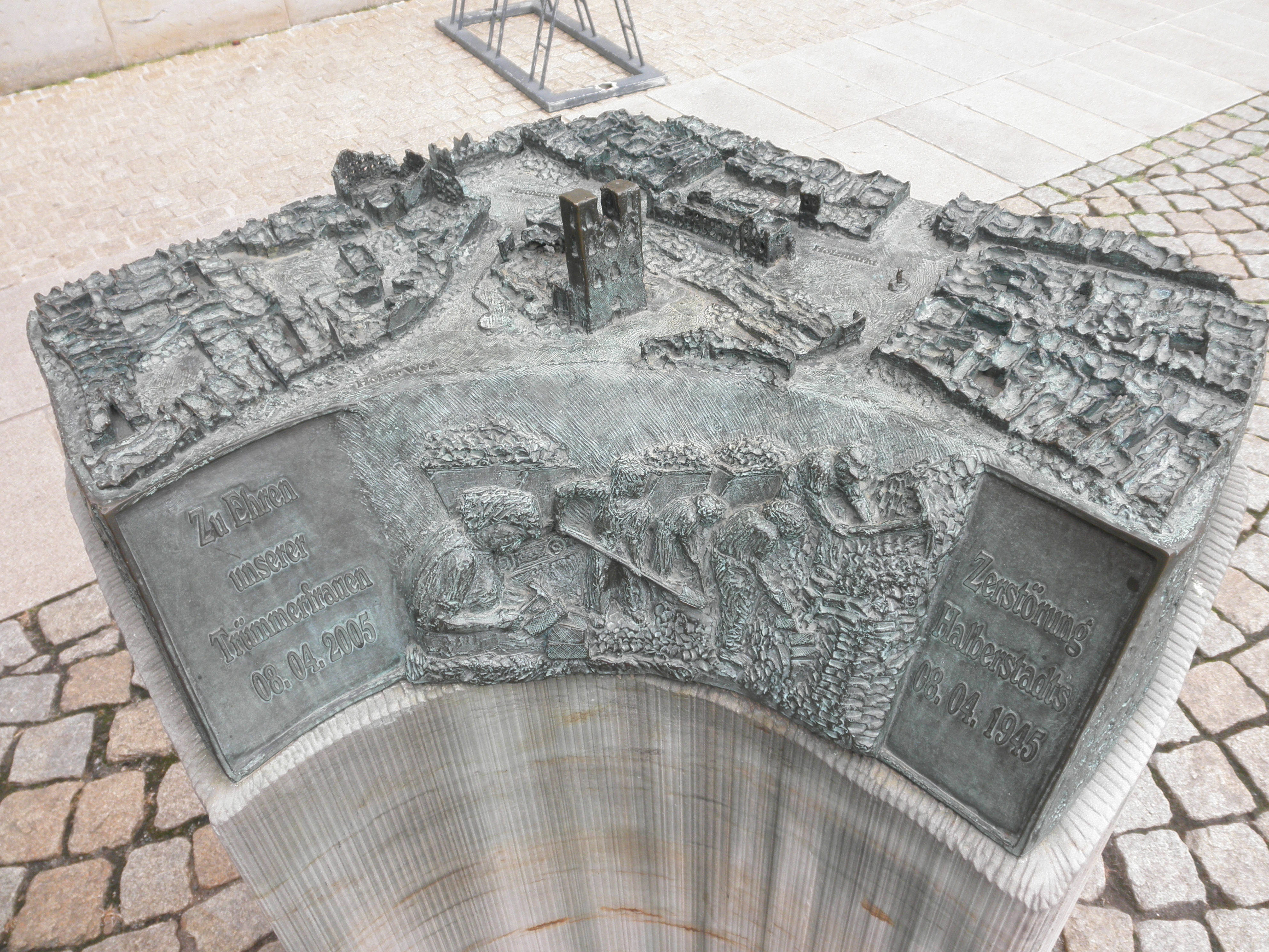 Monument for Truemmerfrauen in Halberstadt